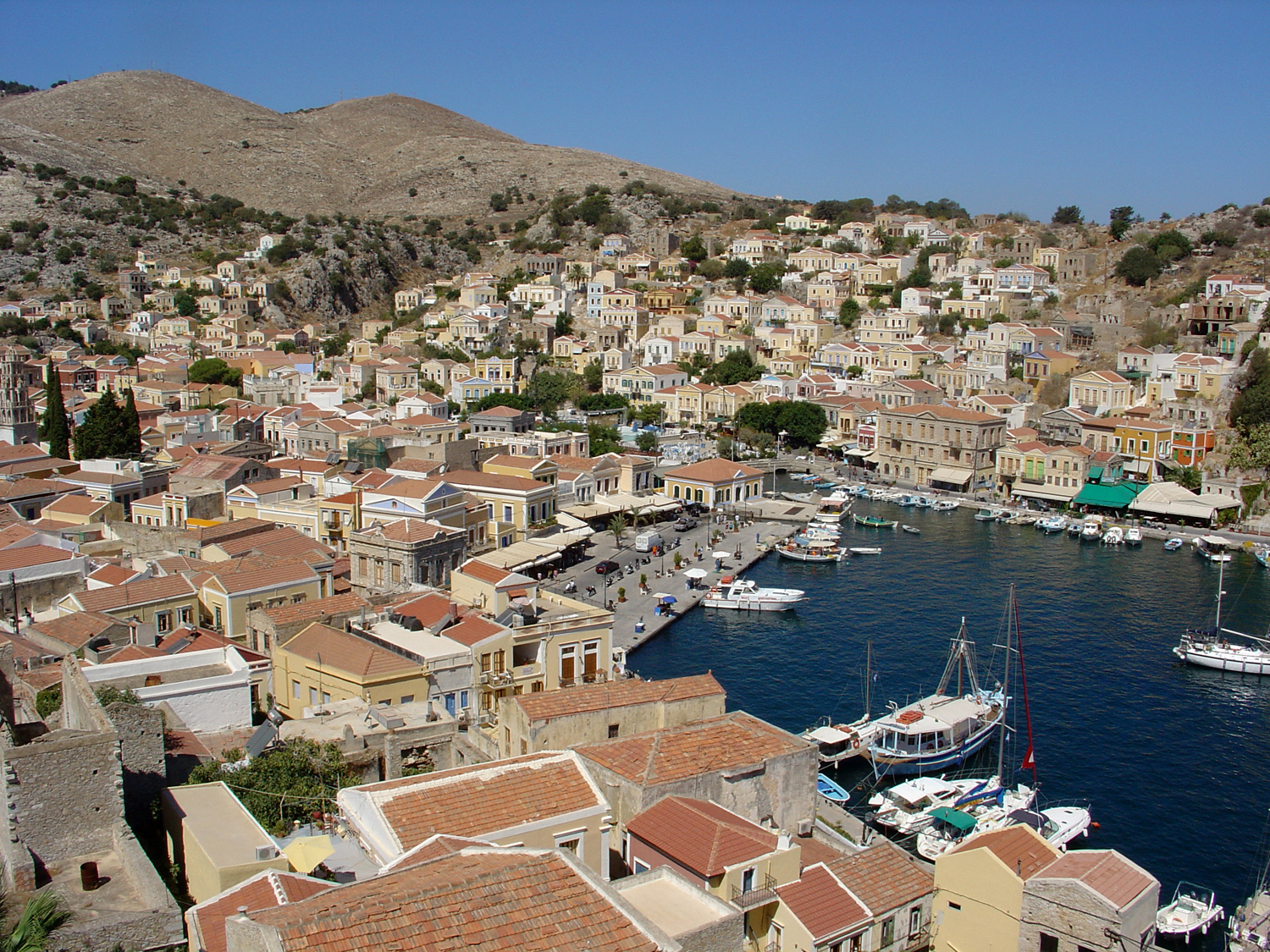 Small Greece town Sími on the Sími island Date=21007-08-25 Author= Karelj